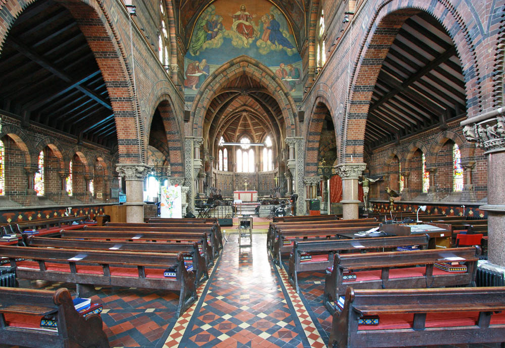 St James the Less, Vauxhall Bridge Road, SW1 - East end, near to Westminster, Great Britain.